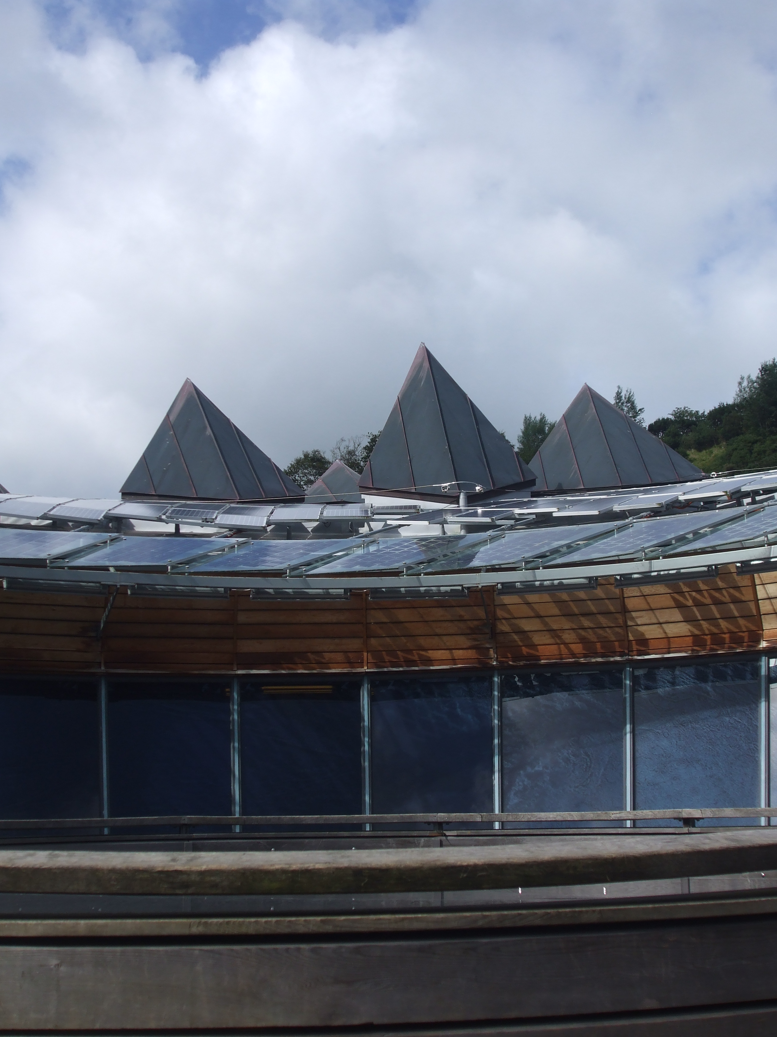 The Core Eden project